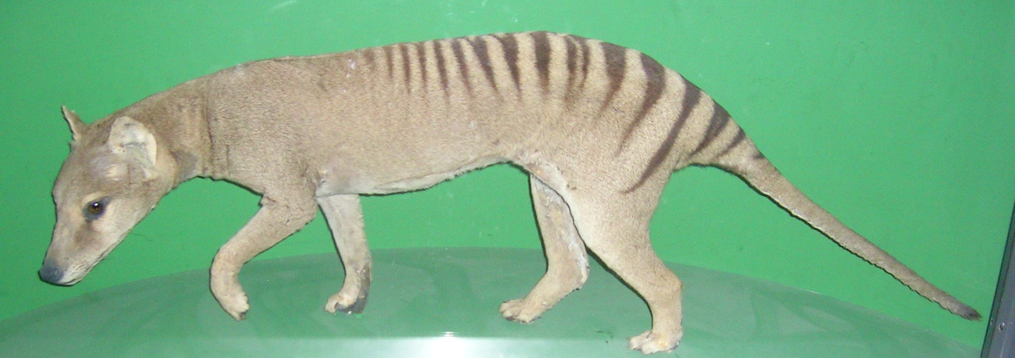 Thylacine from the Natural History Museum at Oslo.